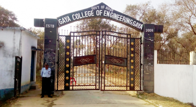 Image Depicting Front View Of Campus